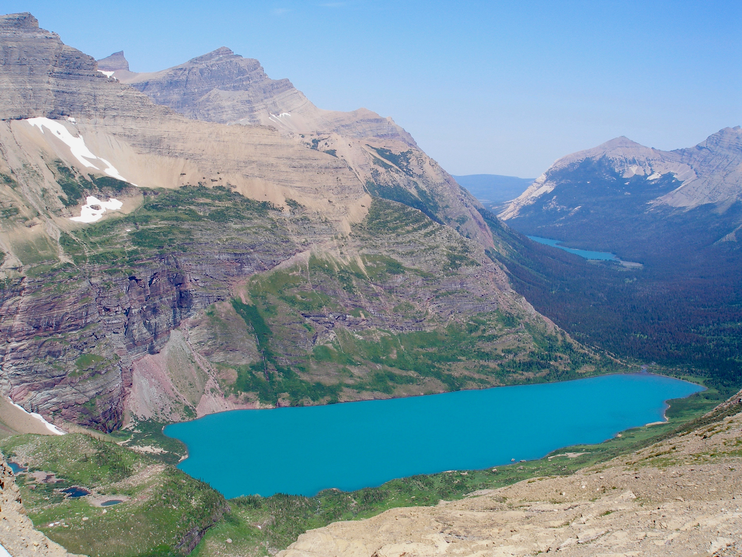 Helen lake in the foreground. Elizabeth lake in the background. Taken from an overlook that branches off the highline trail. July 2009.